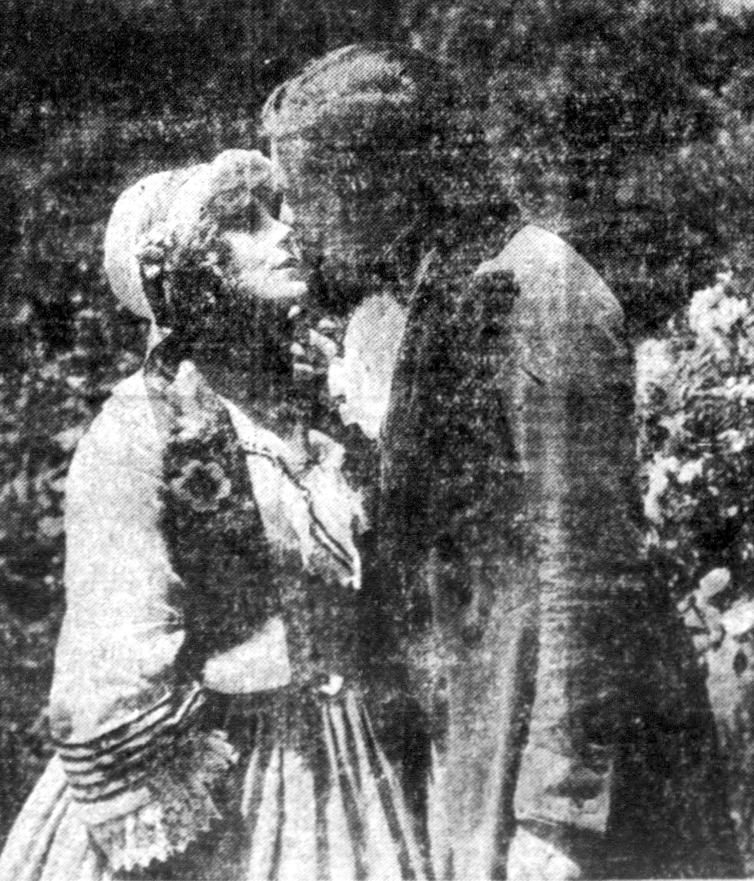 Mayblossom is a lost 1917 silent feature film directed by Edward José and starring Pearl White. A scene from the film, published in a contemporary newspaper.